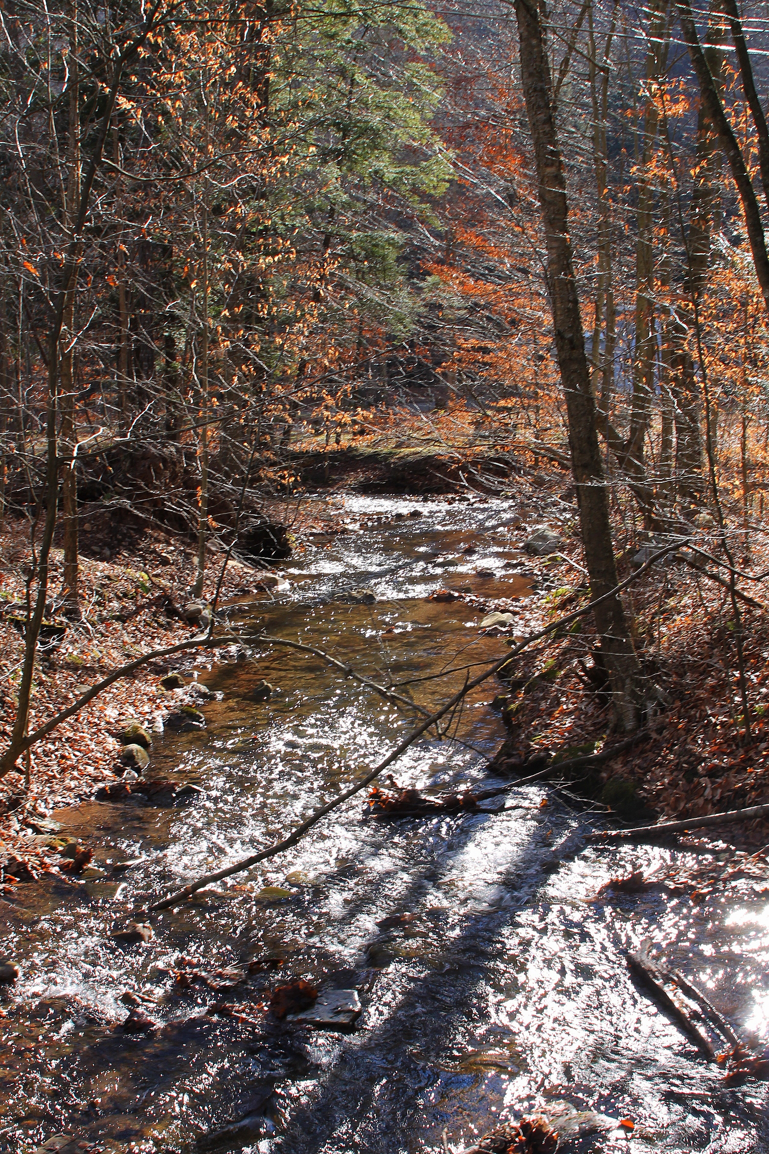 Bloody Run, a tributary of West Branch Fishing Creek, looking downstream